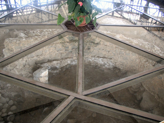 House of St. Peter under the Catholic Church in Kapernaum, Israel.